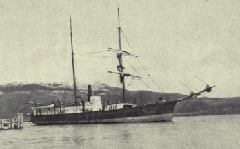 Karluk in her Whaling Days. Bartlett & Hale 1916 p4. no further information in source.